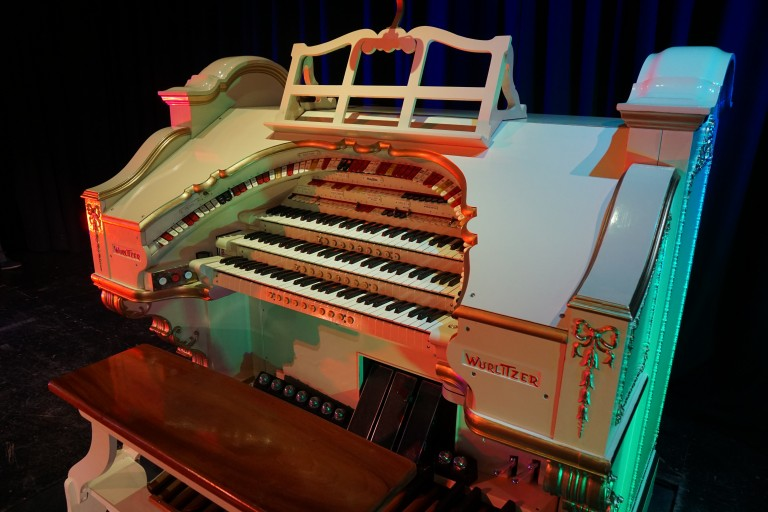 Northern District Wurlitzer, Victoria Hall, Saltaire. Originally installed in the Gaumont Cinema, Oldham, Lancashire, 1937. 3 Manuals, 12 Ranks + Midi Piano